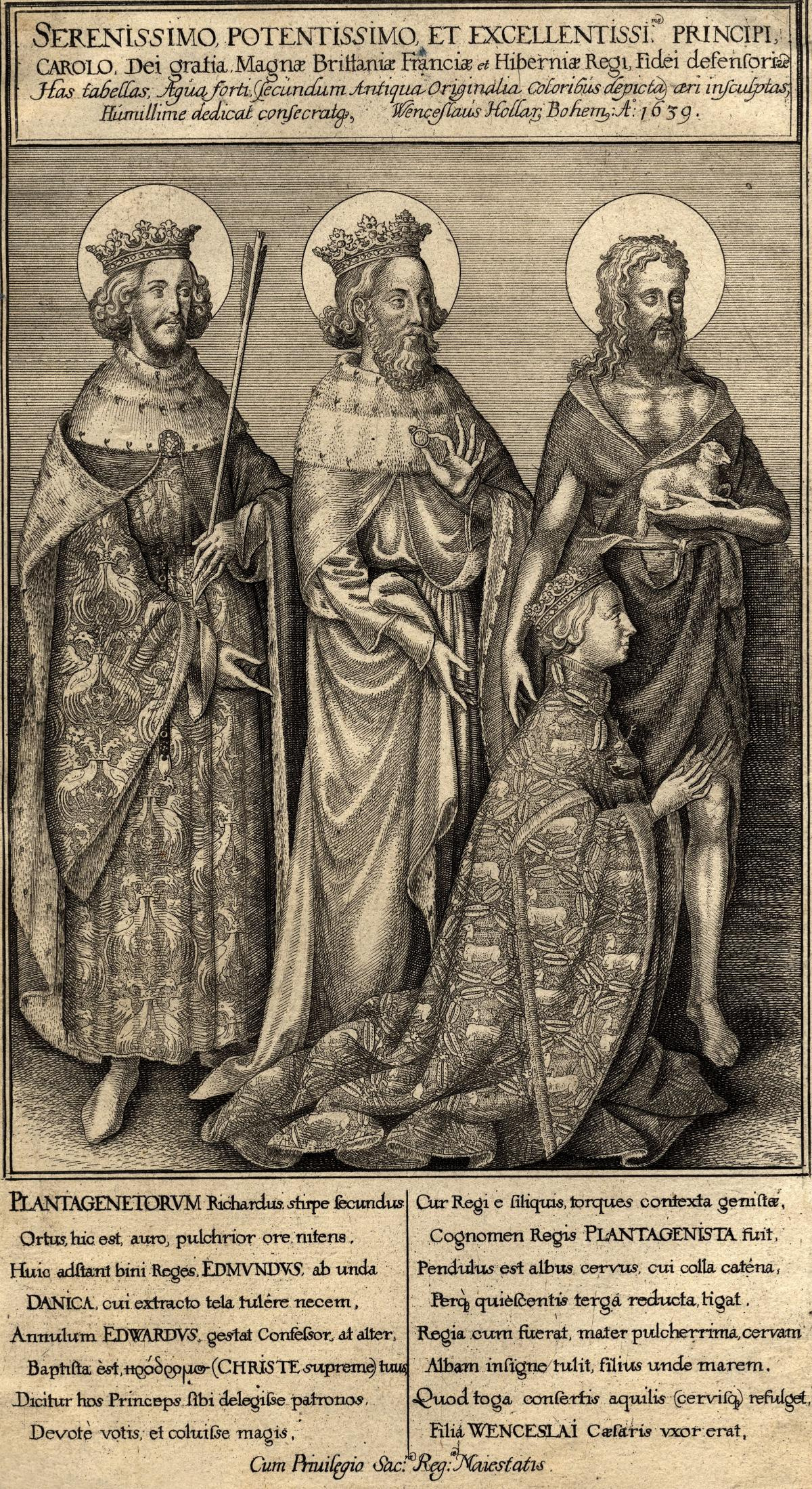 The Wilton Diptych (King Richard II), by Wenceslaus Hollar (died 1677), given to the National Portrait Gallery, London in 1931. All images in this batch have been confirmed as author died before 1939 according to the official death date listed by the NPG.